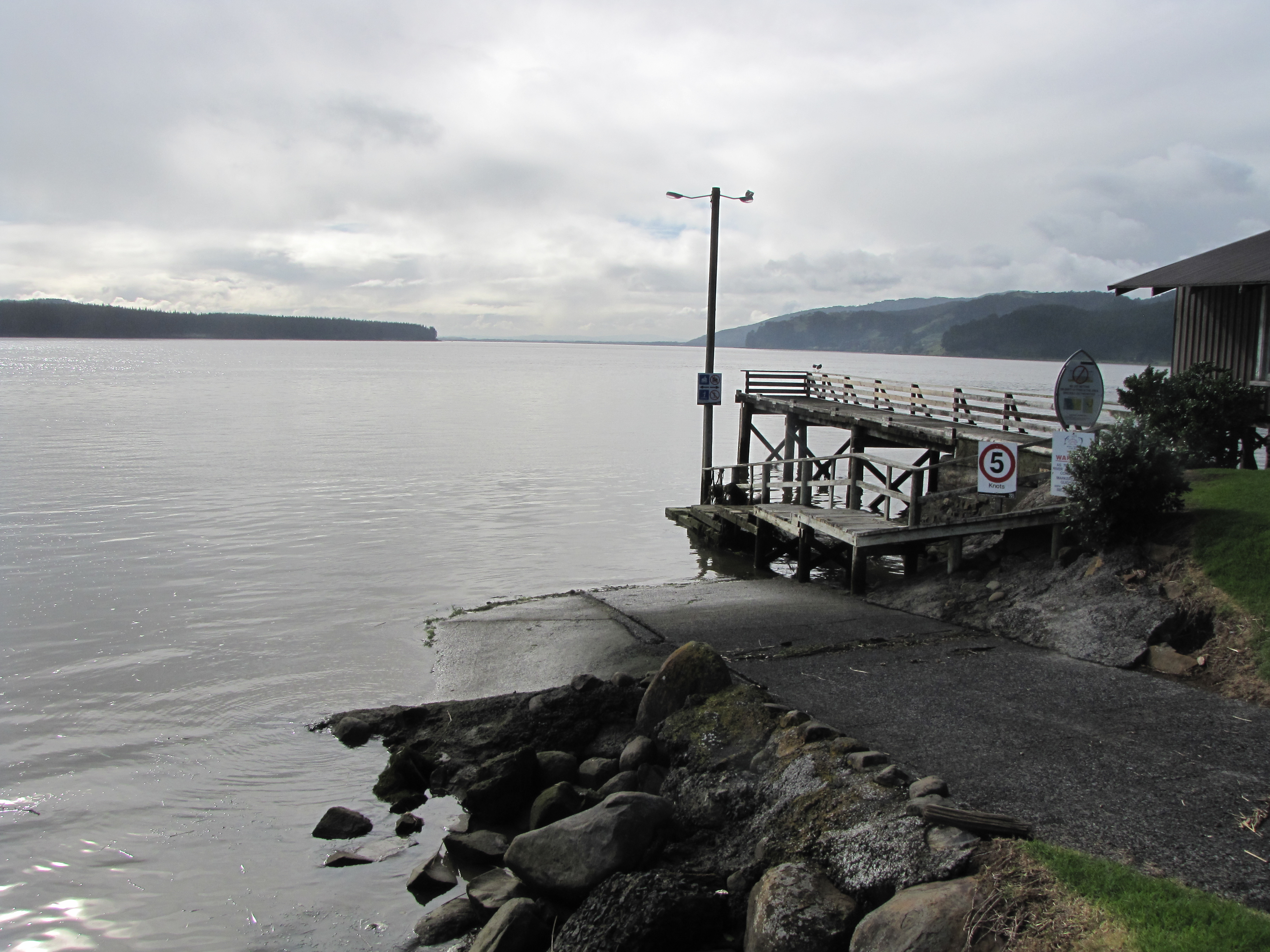 Wharf at Port Waikato, New Zealand, overlooking the Waikato River, near its mouth